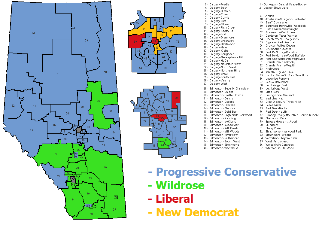 Results of the 2012 Alberta election, on a map.